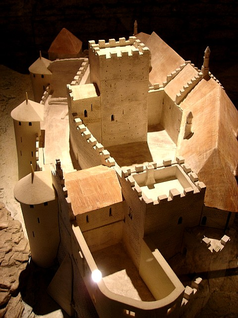 Chillon